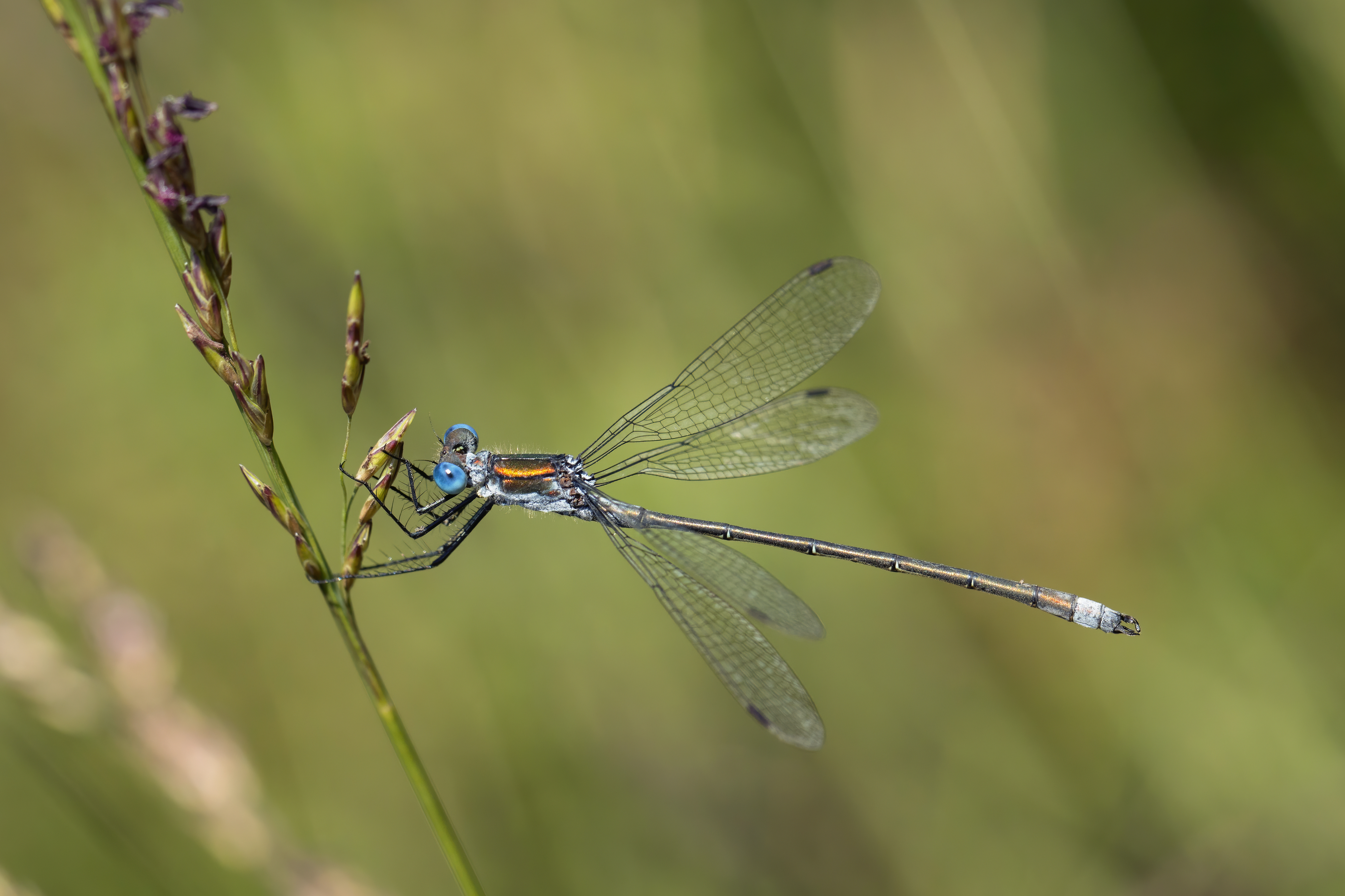 Emerald damselfly (Lestes sponsa) male, Warren Heath, Hampshire.